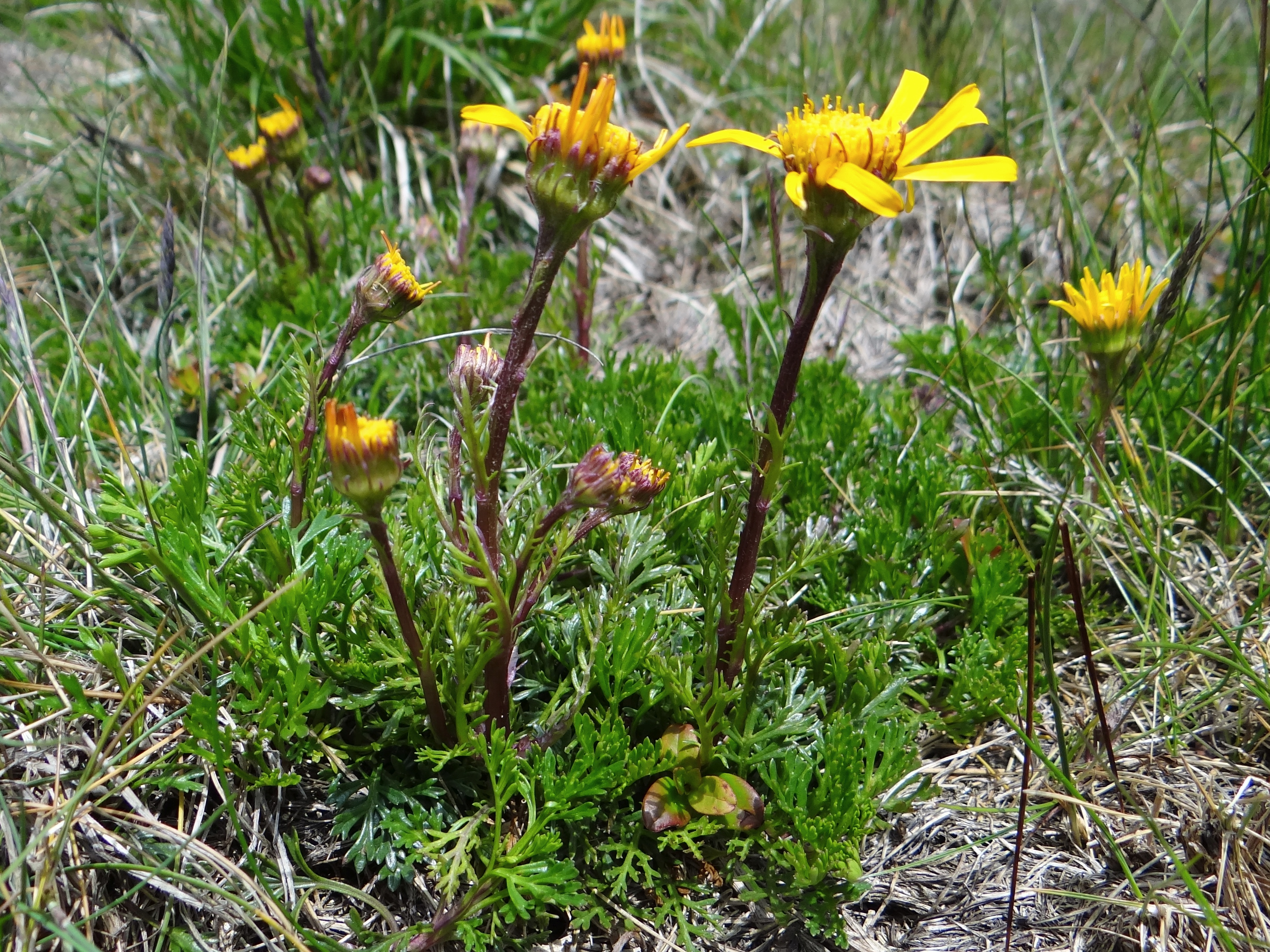 Senecio carpaticus (location, Slovakia, Tatry Niżne, Chopok)